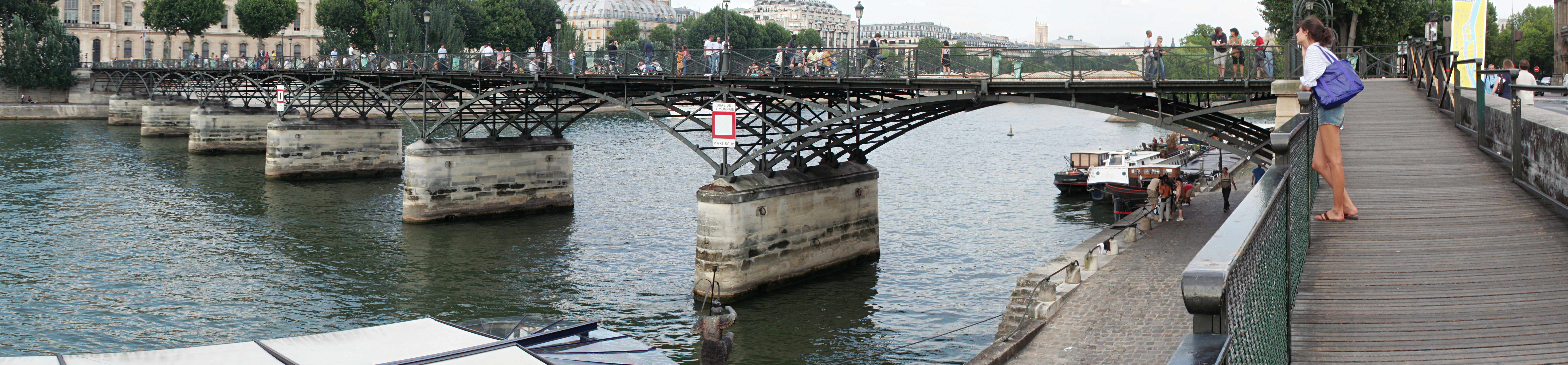 Pont des Arts, Paris.